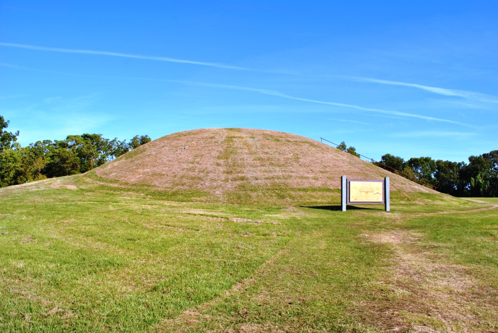 Emerald Mound Site (22AD504)